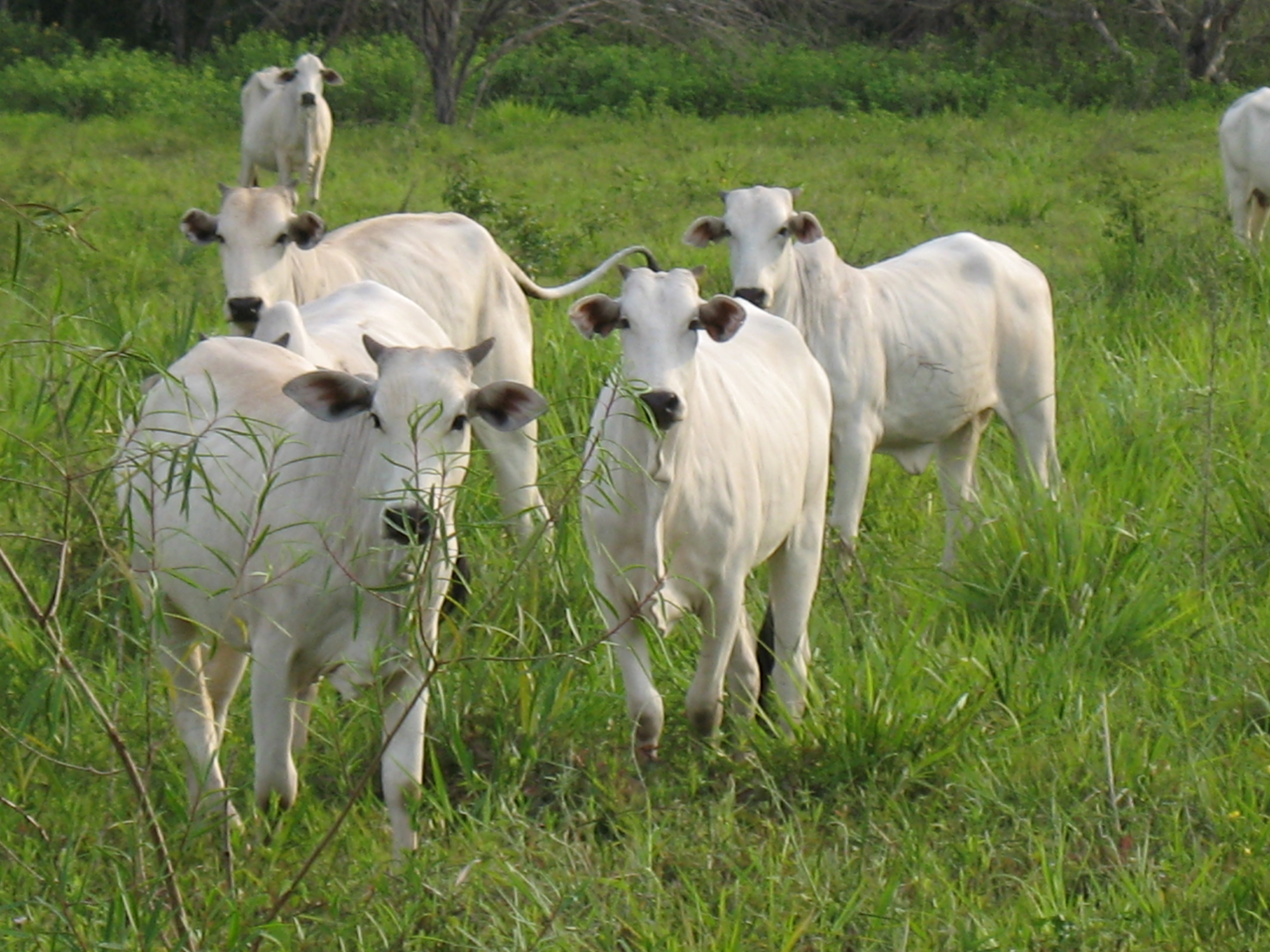 Bovines in the Pantanal Reion, Brazil